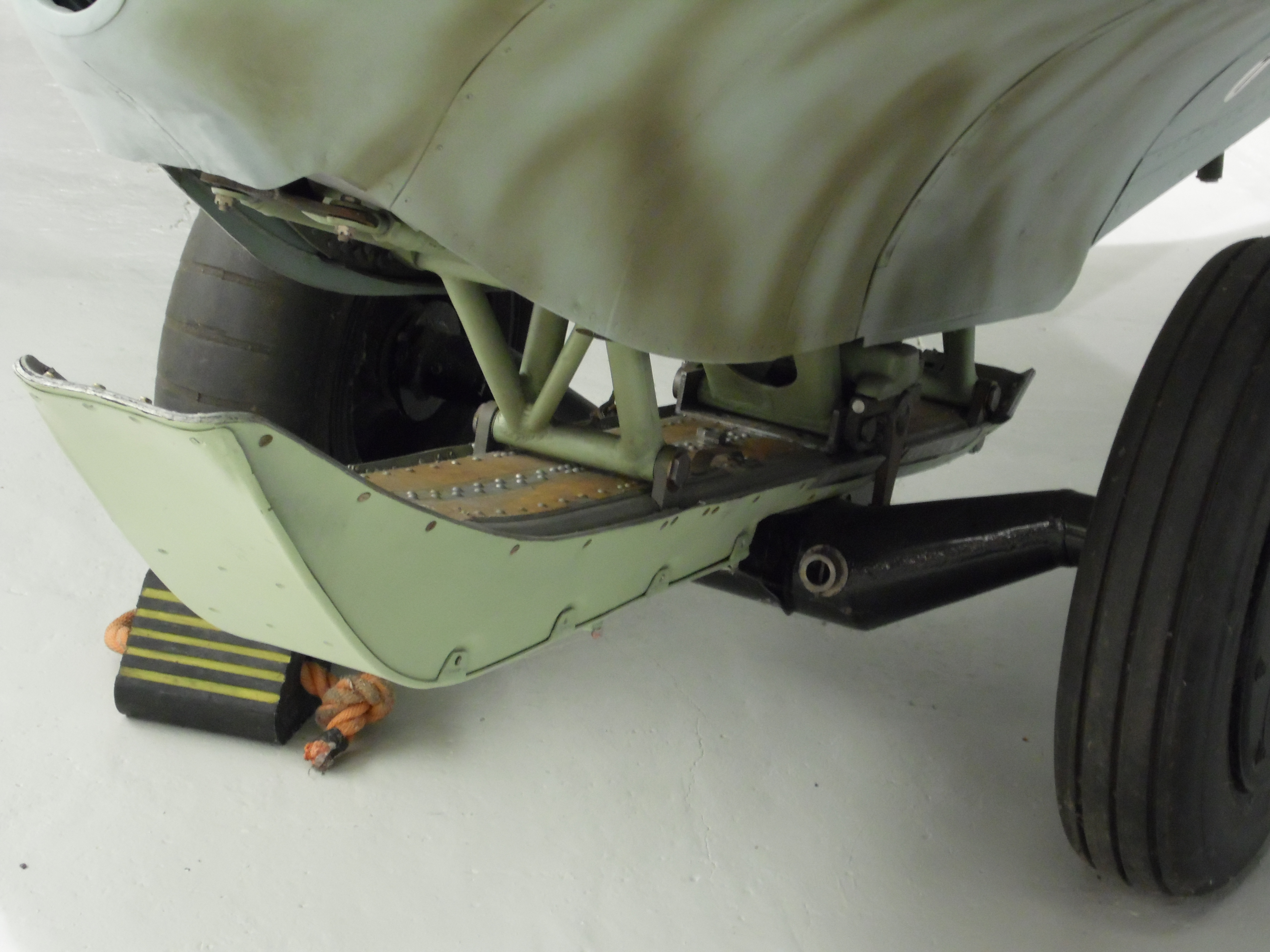 Landing skid of a Messerschmidt ME163 shown in the extended position with the take-off dolly attached.